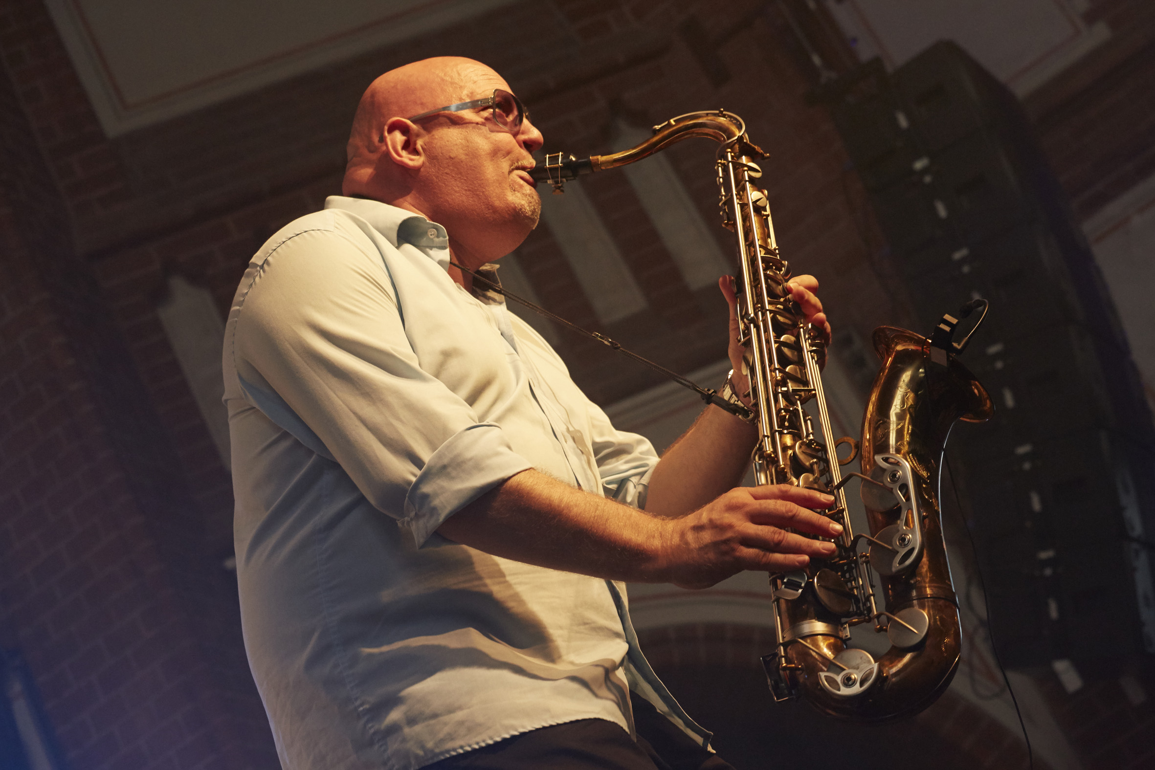 Bernd Delbrügge Kulturkirche Köln 2016